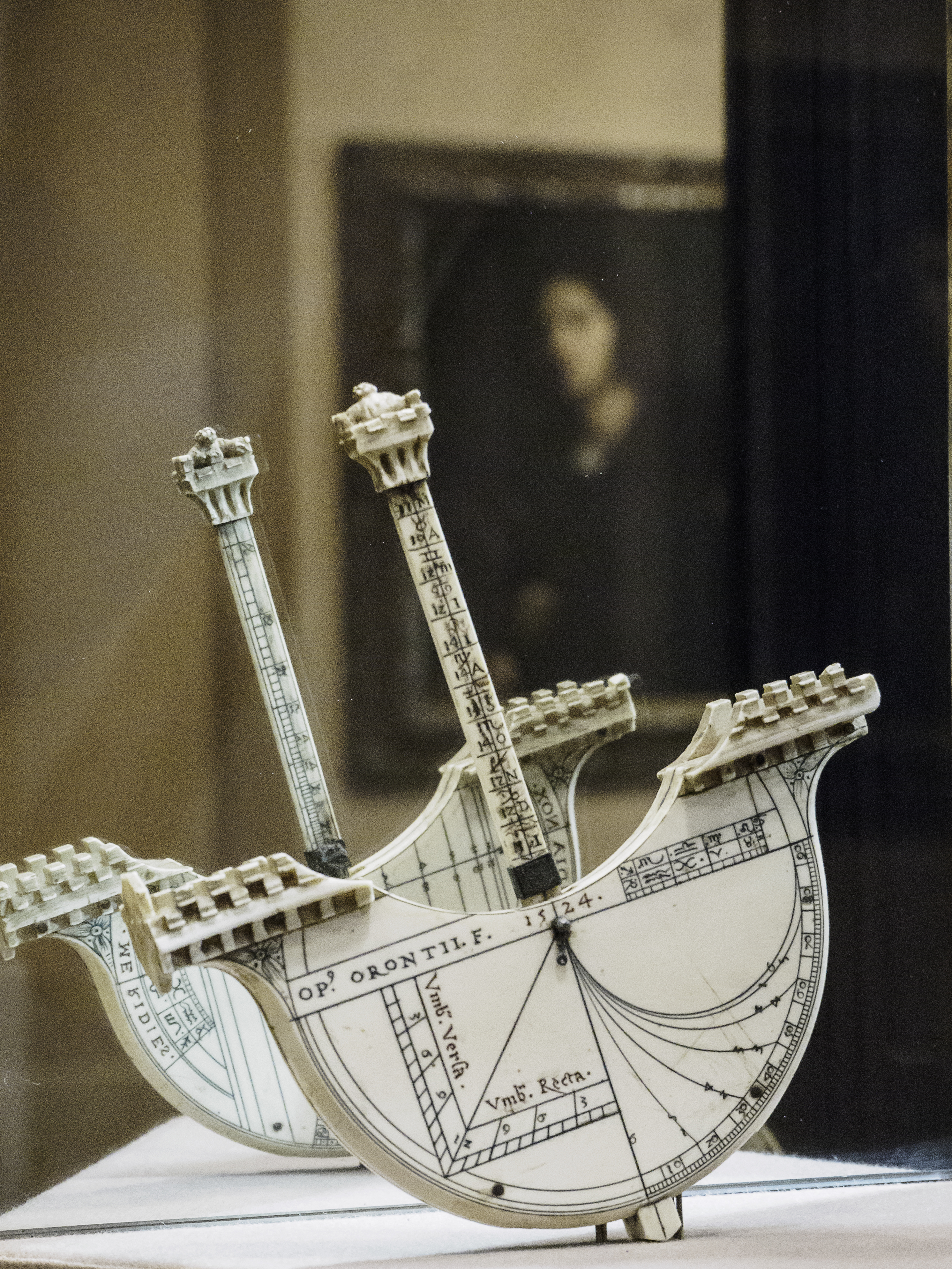 Portable sundial called "Navicula de Venetiis" dated 1524. The name of this sundial comes from its shape resembling a Venetian ship. It is one of the over 200 portable sundials shown at Poldi Pezzoli museum of Milan.